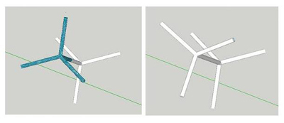 The left image shows the relationship between neighbouring joints in a lorimerlite structure and the right image shows the relationship between neighbouring joints in the Weaire-Phelan structure.